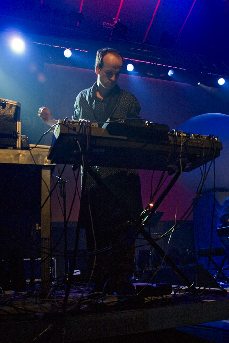 Matthew Herbert at moers festival 2006 own photo, june 3, 2006- photo: nomo/michael hoefner